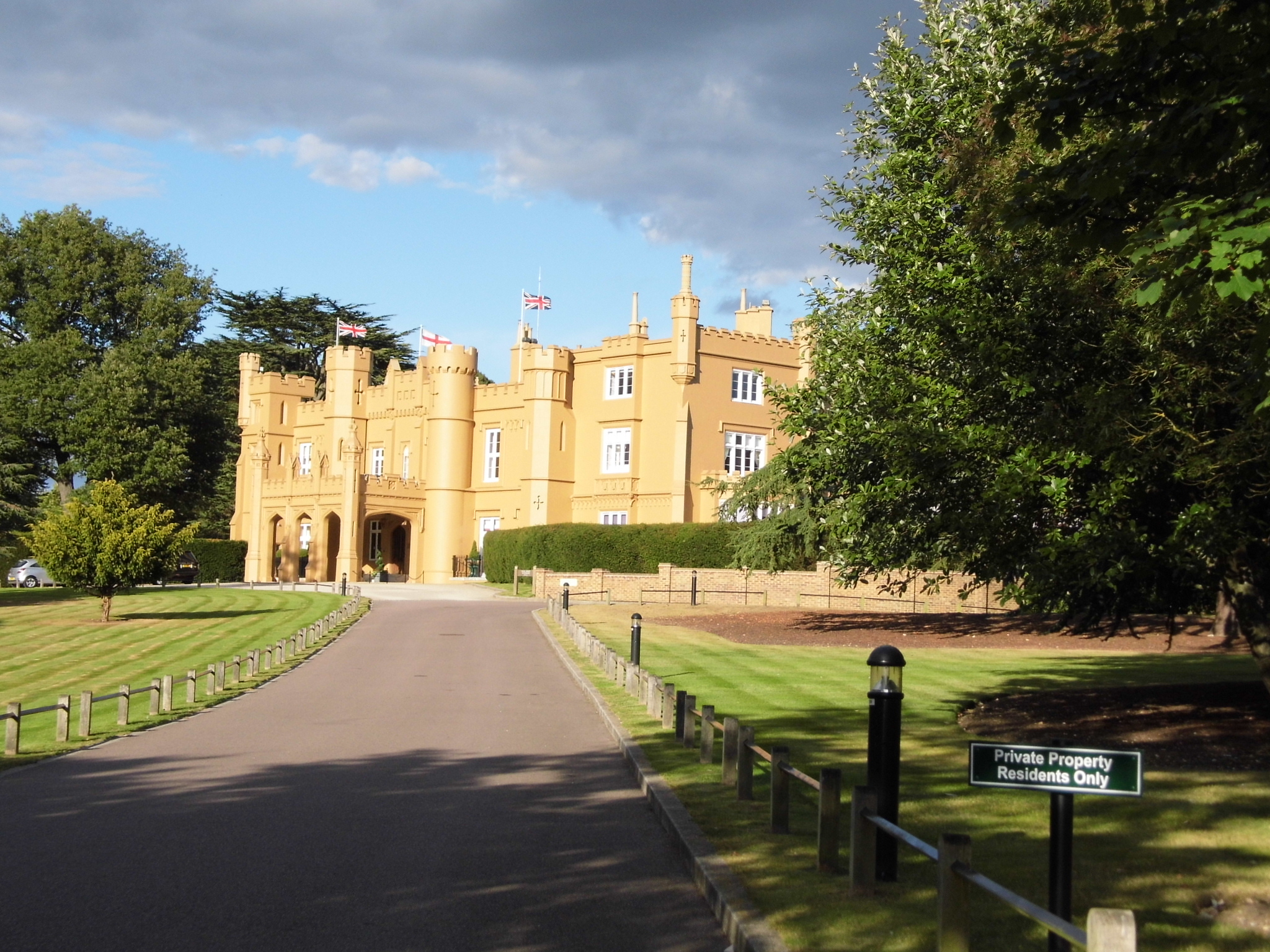 Wall Hall, Aldenham. Wall Hall was built in the 19th century for George Woodford Thelluson, and later became part of Hatfield Polytechnic and the University of Hertfordshire which it became. The college was demolished for housing which was completed in 2004 and only the hall and the old cottages along the road remain.